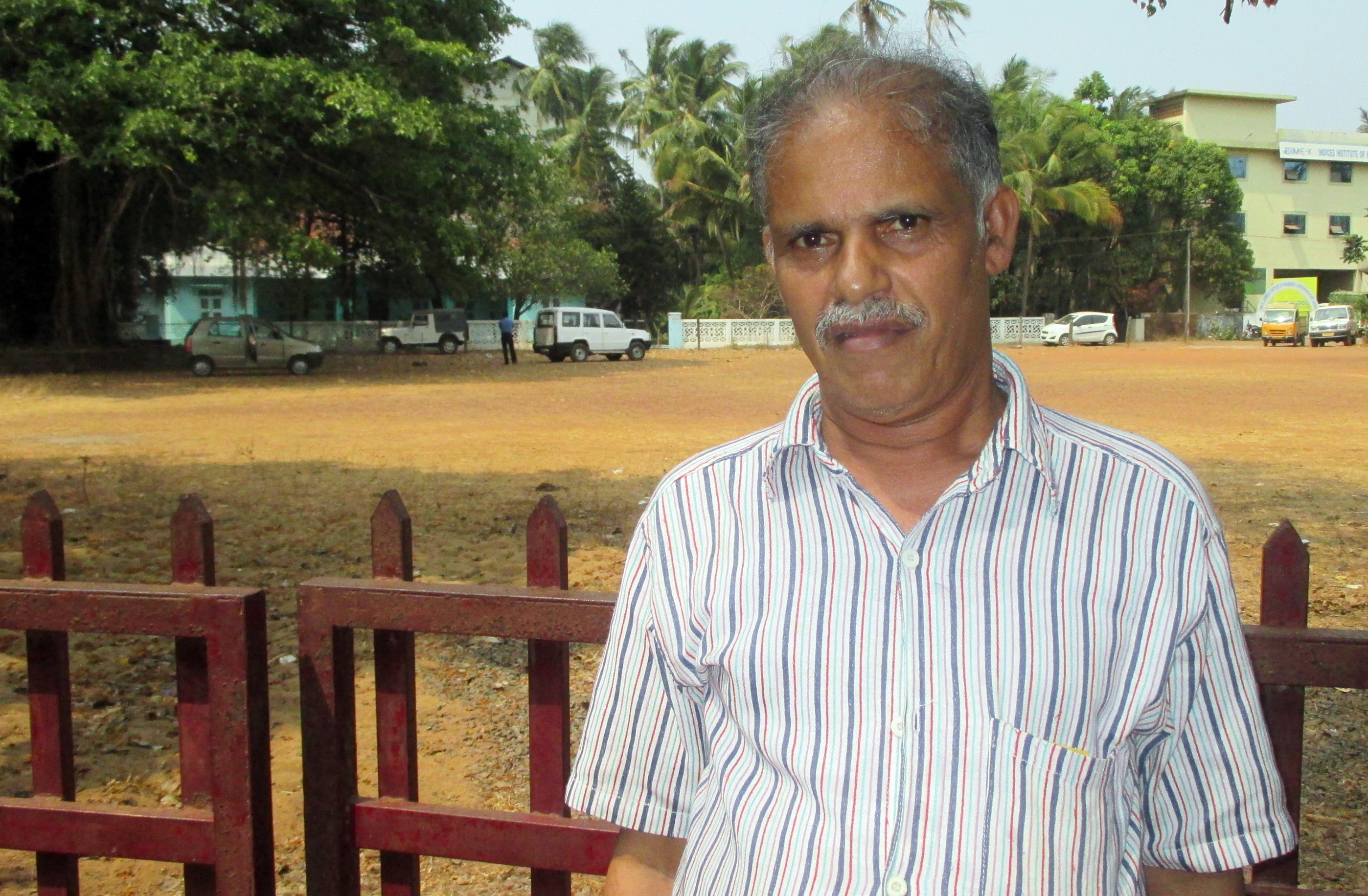 Writer in Mathematics literature